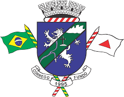 Coat of Arms of Corrego Fundo, Minas Gerais, Brazil.